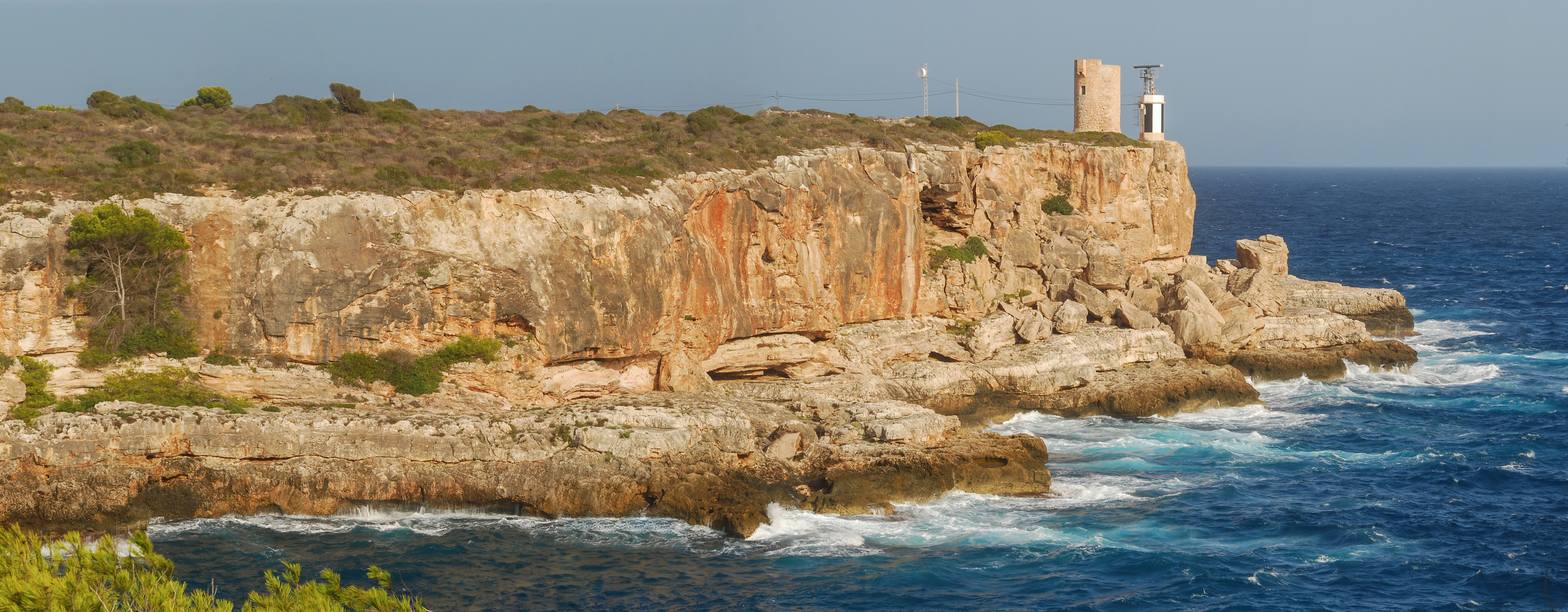 Cala Figue, Mallorca